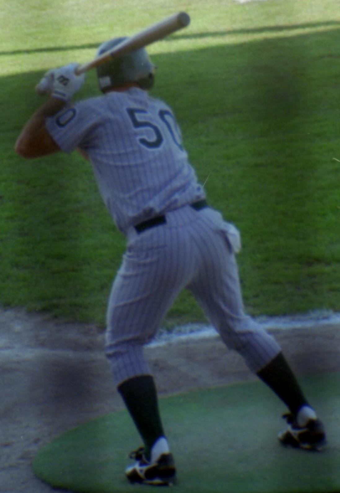 Pete Rose, Jr. on deck with the South Bend Silver Hawks in 1995